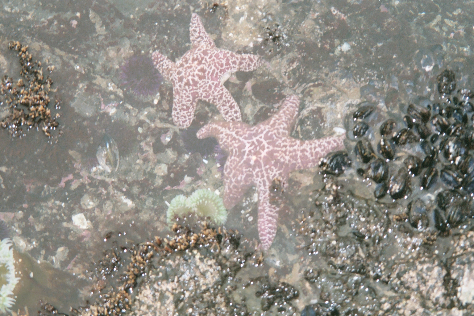 Sea Stars in a tidepool, Seal Rock, Oregon. Photo by myself